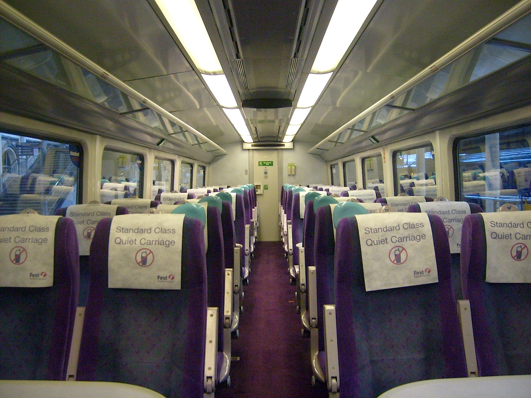 The Standard Class interior of Class 180 DMSO vehicle